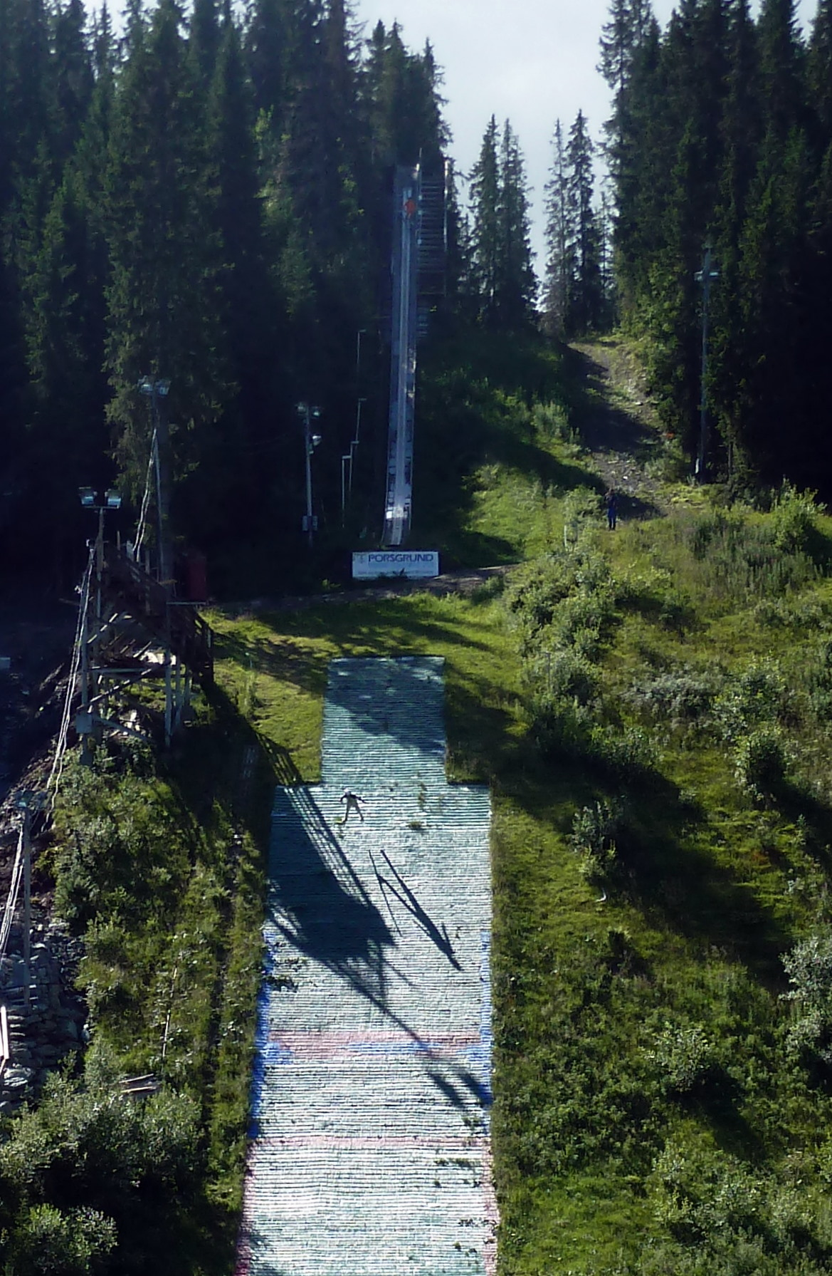 One of the older, smaller ski jumping hills in Trondheim